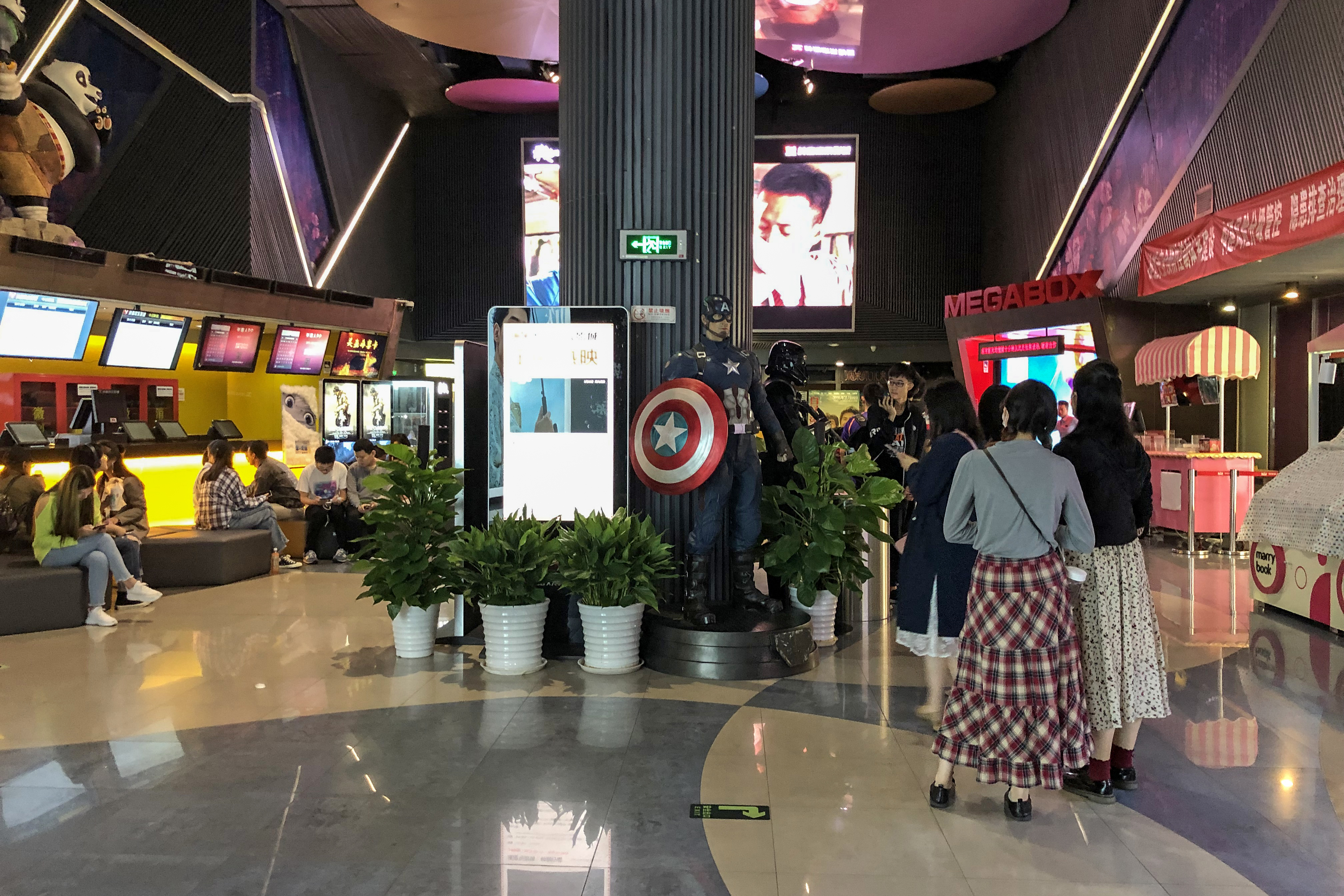 Check-in of 9:50's Detective Conan: The Fist of Blue Sapphire started at 9:38. M23 is released today in mainland China, resulting in a first-day revenue of ￥76.75 million.